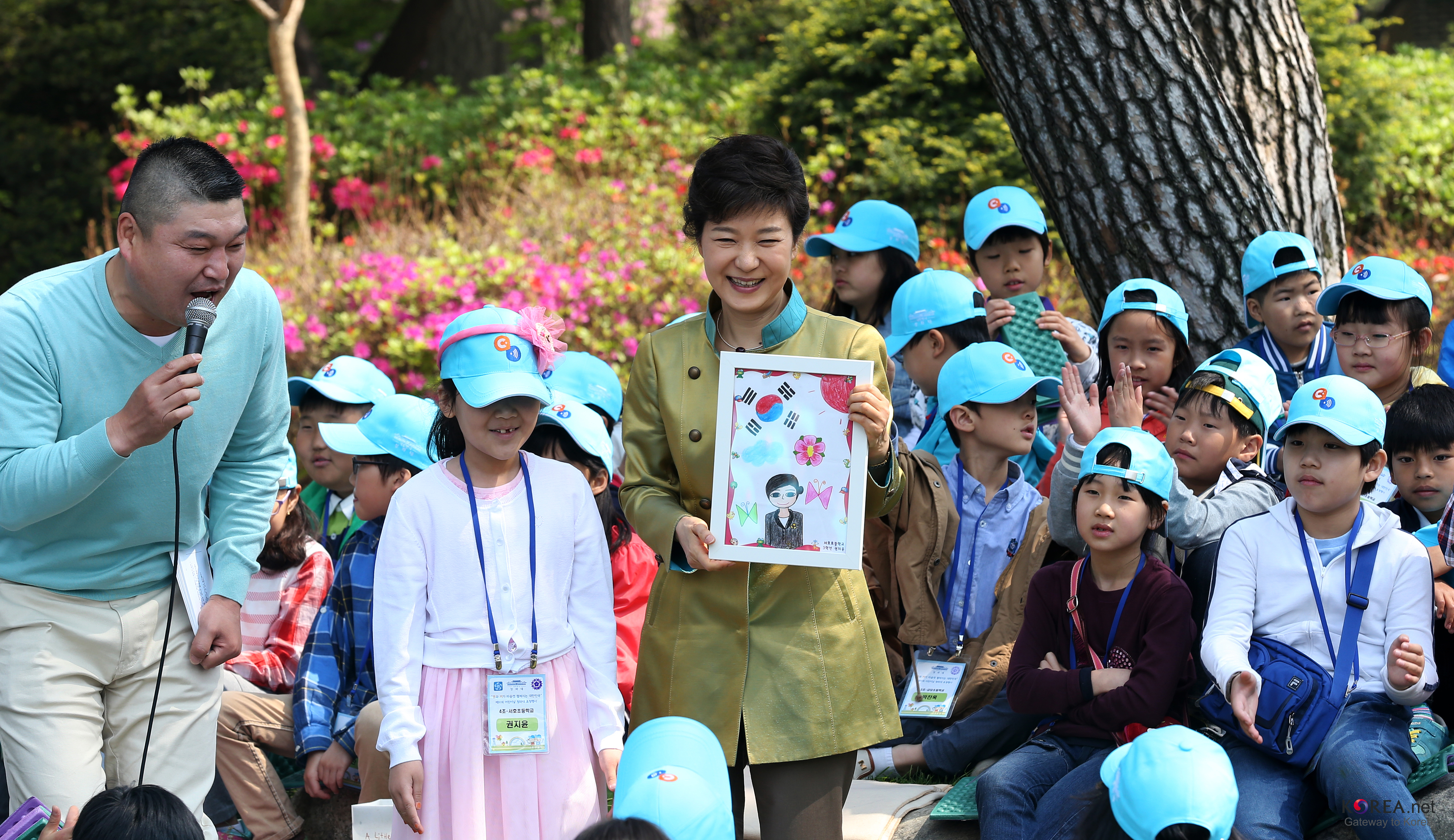 Children’s Day in Cheong Wa Dae President Park (center) smiles and shows a self-portrait drawn by a girl named Gwon Ji-yun Cheong Wa Dae, Seoul 2013.05.05. -Related Article- “President Park encourages children to realize their dreams” Ministry of Culture, Sports and Tourism Korean Culture and Information Service Newsroom Jeon Han 제91회 어린이날 어린이날 청와대 초청행사 5일 권지윤 어린이에게 초상화를 선물받은 박근혜 대통령이 자신의 초상화를 어린이들에게 보여주며 환하게 웃고 있다. 청와대 문화체육관광부 해외문화홍보원 코리아넷 전한